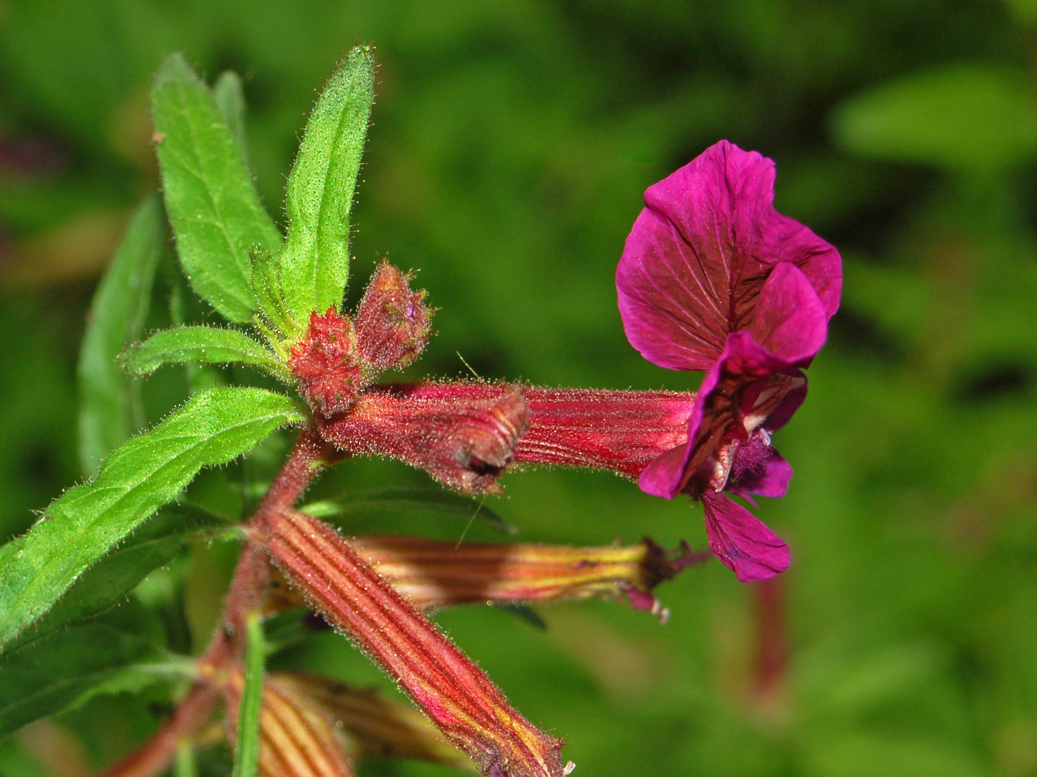 Cuphea lanceolata - Botanicka Zahrada Praha